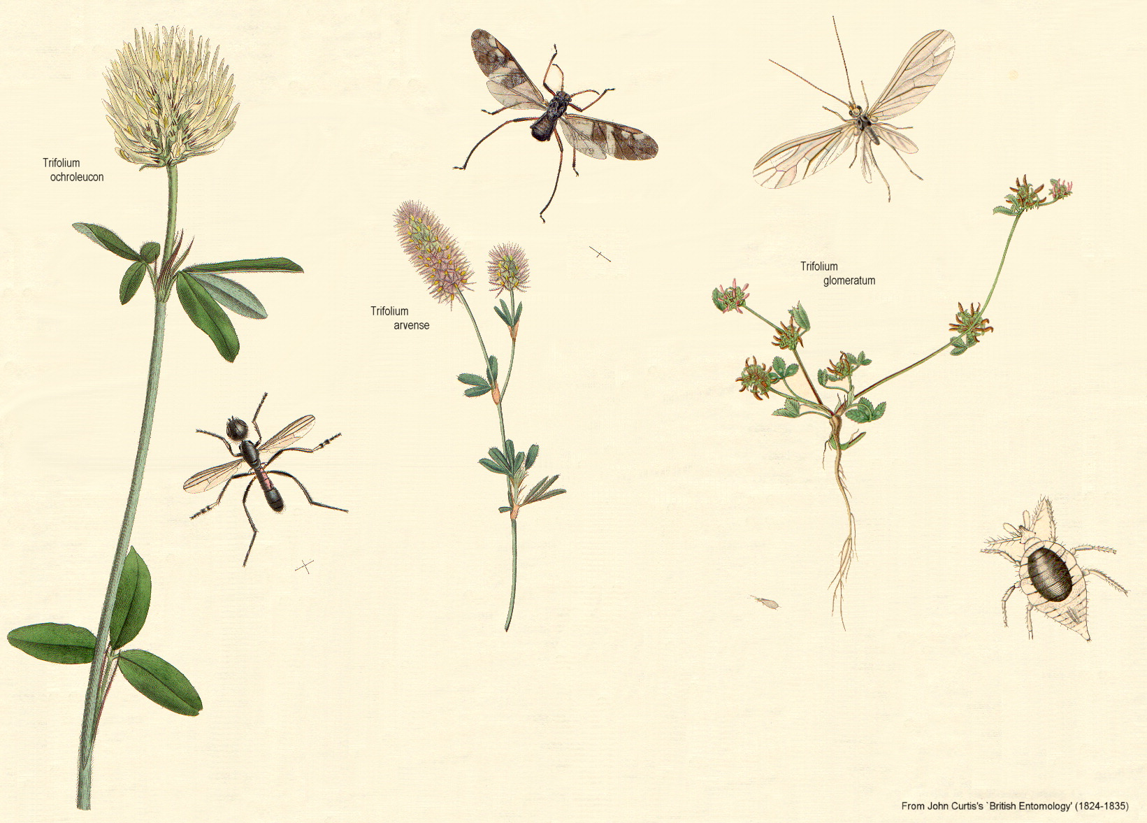 A plate from John Curtis's British Entomology, demonstrating the legumes Trifolium ochreleucum, Trifolium arvense, and Trifolium glomeratum; and three unidentified insects (including a larval form).